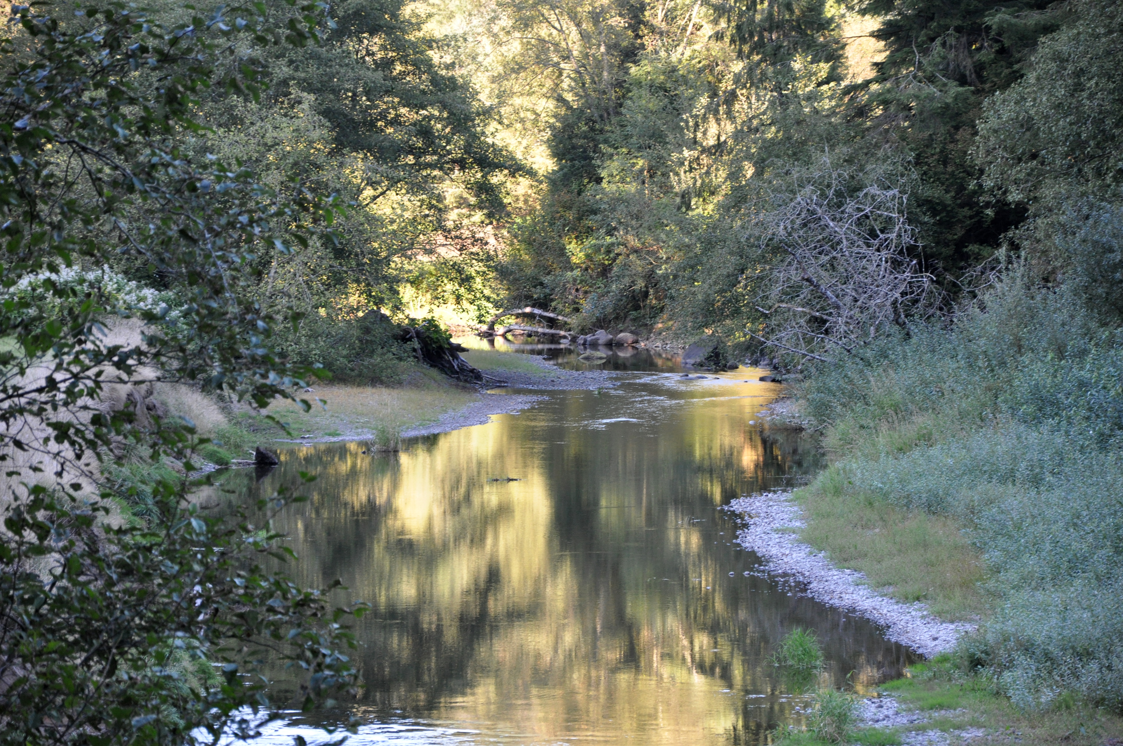 Miami River in Tillamook County, Oregon, in the United States. View is from Miami Road near Garibaldi.